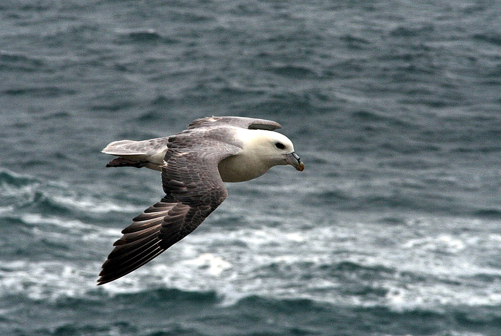 Fulmarus glacialis at Land´s End, Cornwall Great Britain